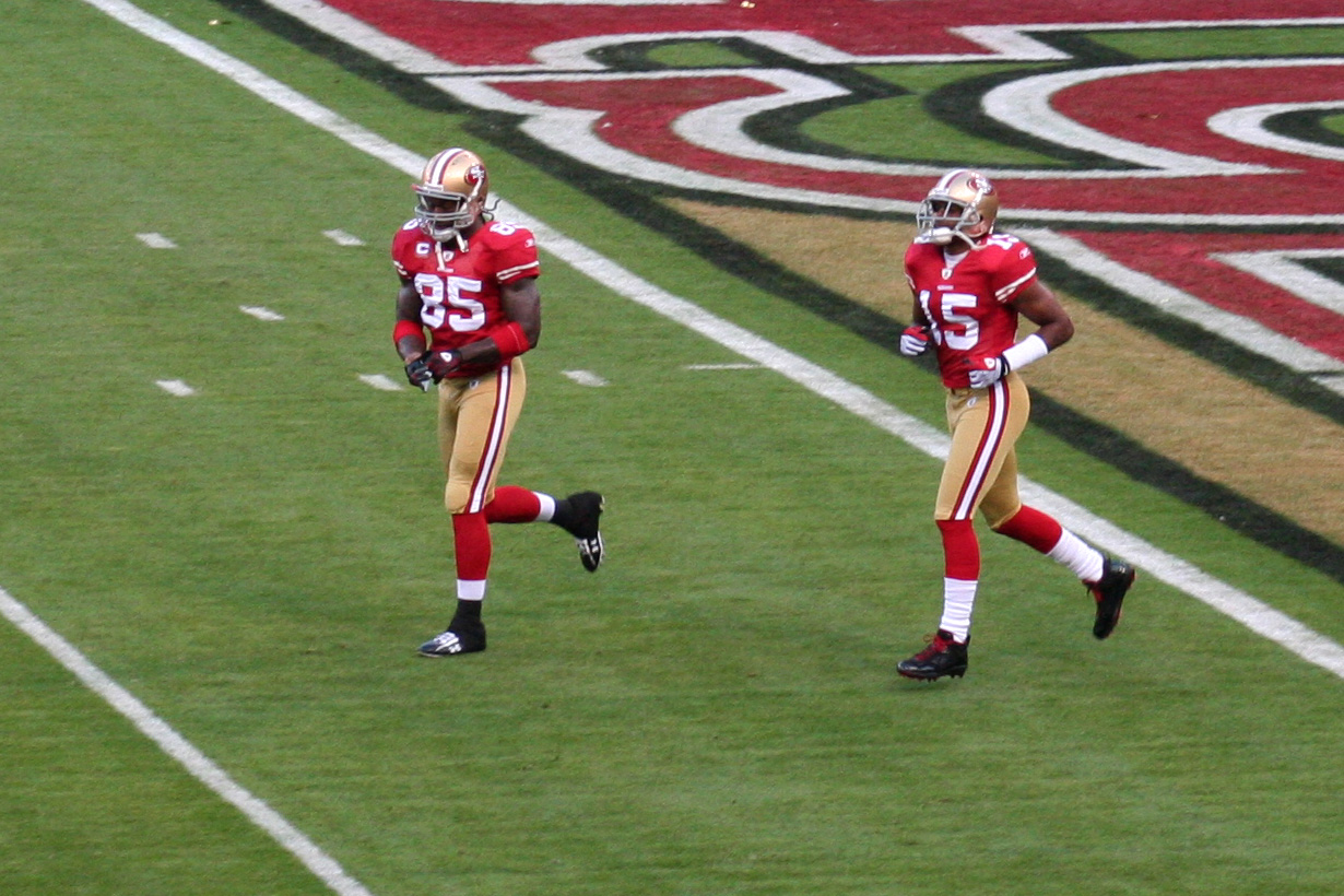 Vernon Davis and Michael Crabtree entering the field